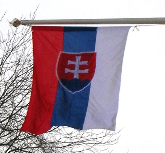 Flag of Slovakia, hanging vertically outside the Slovakian embassy in Stockholm, embarrassingly enough hoisted "upside down", with the wrong end towards the finial.